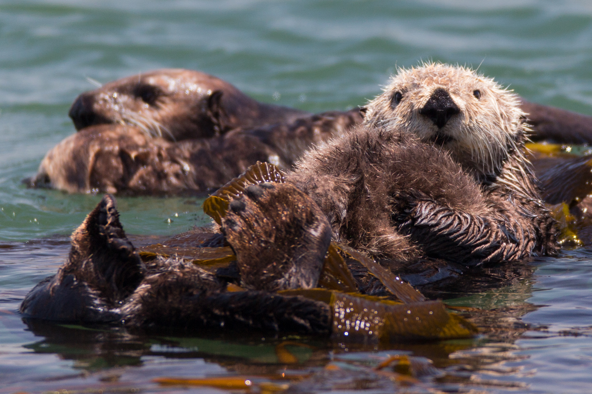 Sea Otter mother with one baby pup. You be the judge, is this or the same Mom that had two pups, one or two days old, five days earlier on Monday 24 June 2013 ? - reference Mom with twin pups 24 June 2013, in full size... Look closely at the nose where there are no salient scars from mating. Adult is light-headed, and pup is young as the fur is very fuzzy and fluffy. From this set PLEASE do add your comments and opinions below, especially if you can identify definitively if this is the same adult! Sea Otter (Enhydra lutris), from a raft of about 20, mostly females, many being Moms with their pups (usually plopped on their Mom’s tummy), near Target Rock in the Morro Bay Harbor, where the Sea Otters almost always hang out, just SE of Morro Rock, 29 June 2013, Morro Bay, CA. Photo © 2013 “Mike” Michael L. Baird, mike {at] mikebaird d o t com, , Canon 5D Mark III with Canon 600mm f/4 telephoto lens, with circular polarizer filter on a GZGT5540LS Gitzo tripod with Wimberley Head II with leveling base, IS on. GPS encoding and compass direction realtime from an on-camera Canon GP-E2 GPS Receiver. Canon 600EX-RT Speedlite Flash on tall bracket, E-TTL +0 flash compensation, with Better Beamer. (see EXIF for specifics). To use this photo, see access, attribution, and commenting recommendations at - Please add comments/notes/tags to add to or correct information, identification, etc. Please, no comments or invites with badges, images, multiple invites, award levels, flashing icons, or award/post rules.